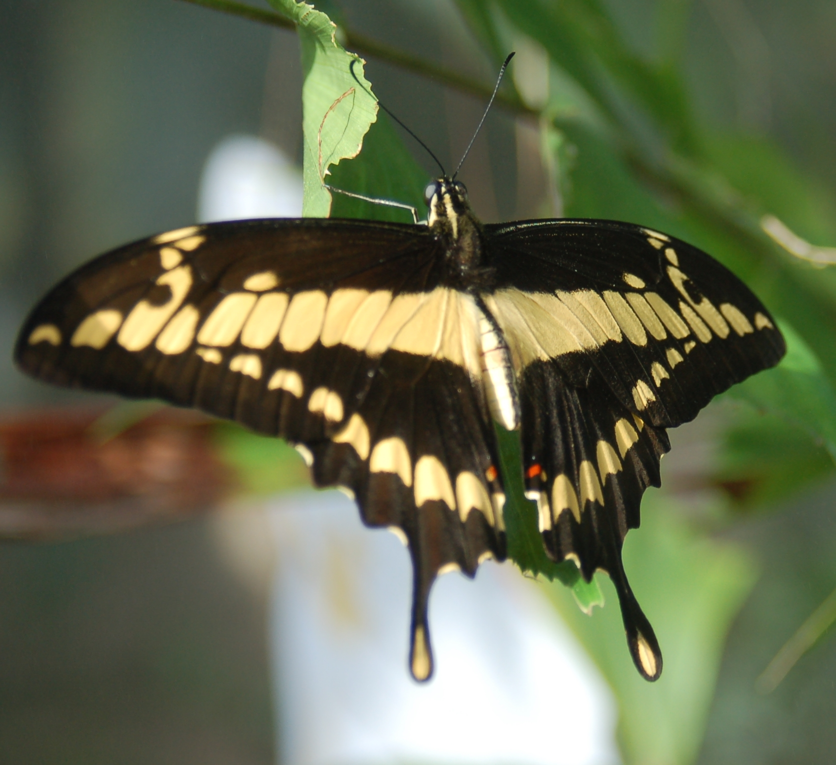 Papilio thoas - 'botanika' Bremen